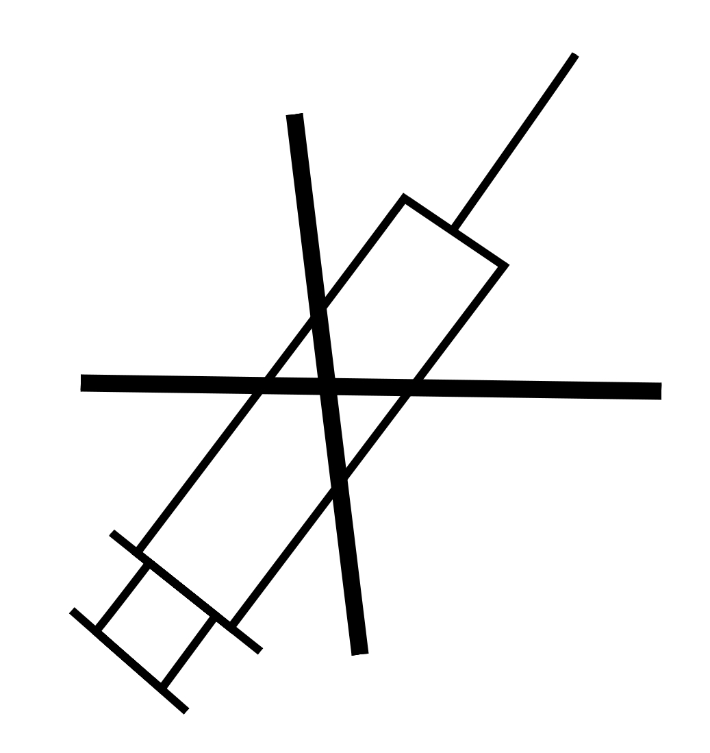 Anti-drug message common in Spanish comic Superlópez.